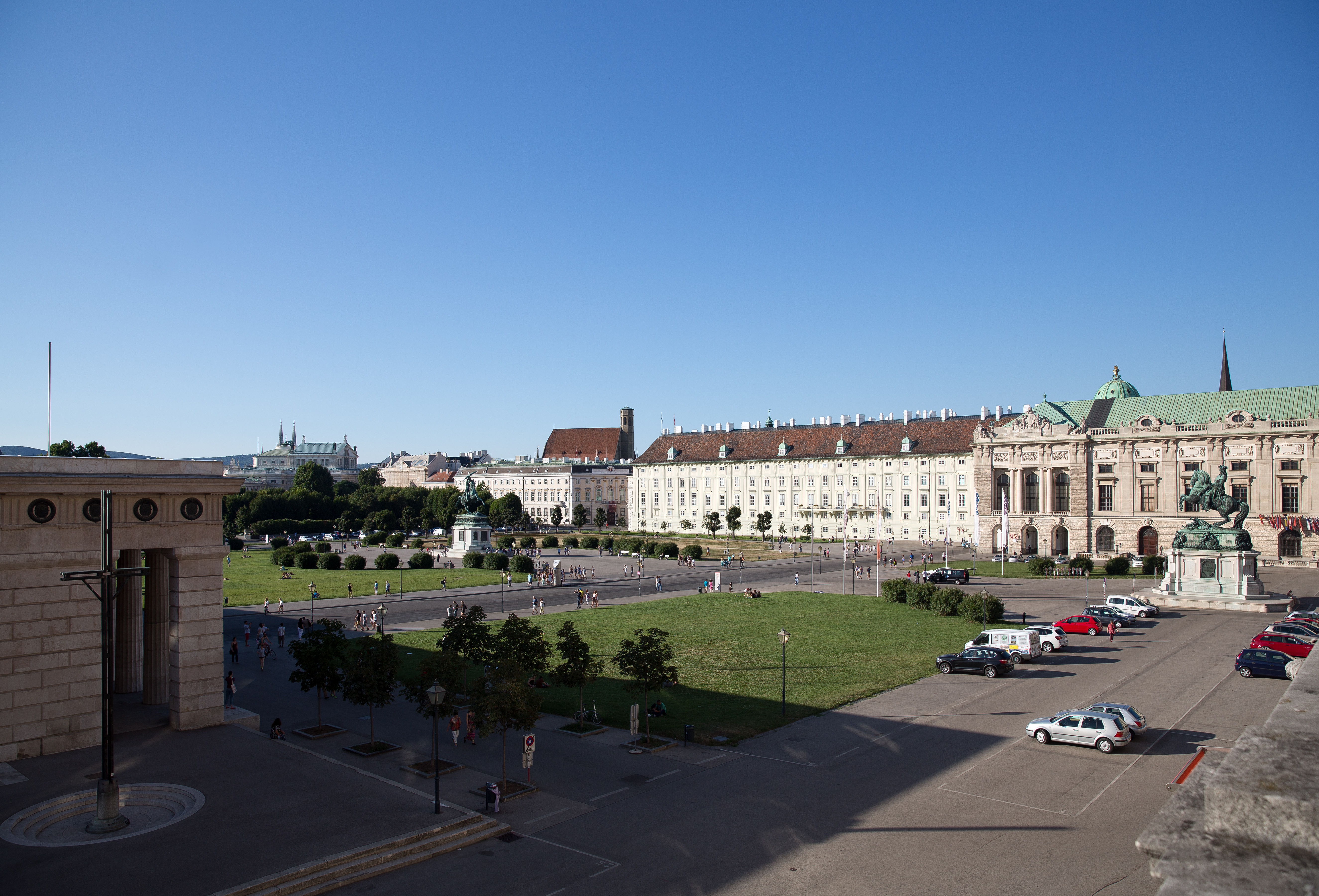 View from the balcony of the Corps de Logis (Museum of Ethnology) of Hofburg Palace across Heldenplatz in Vienna, Austria.